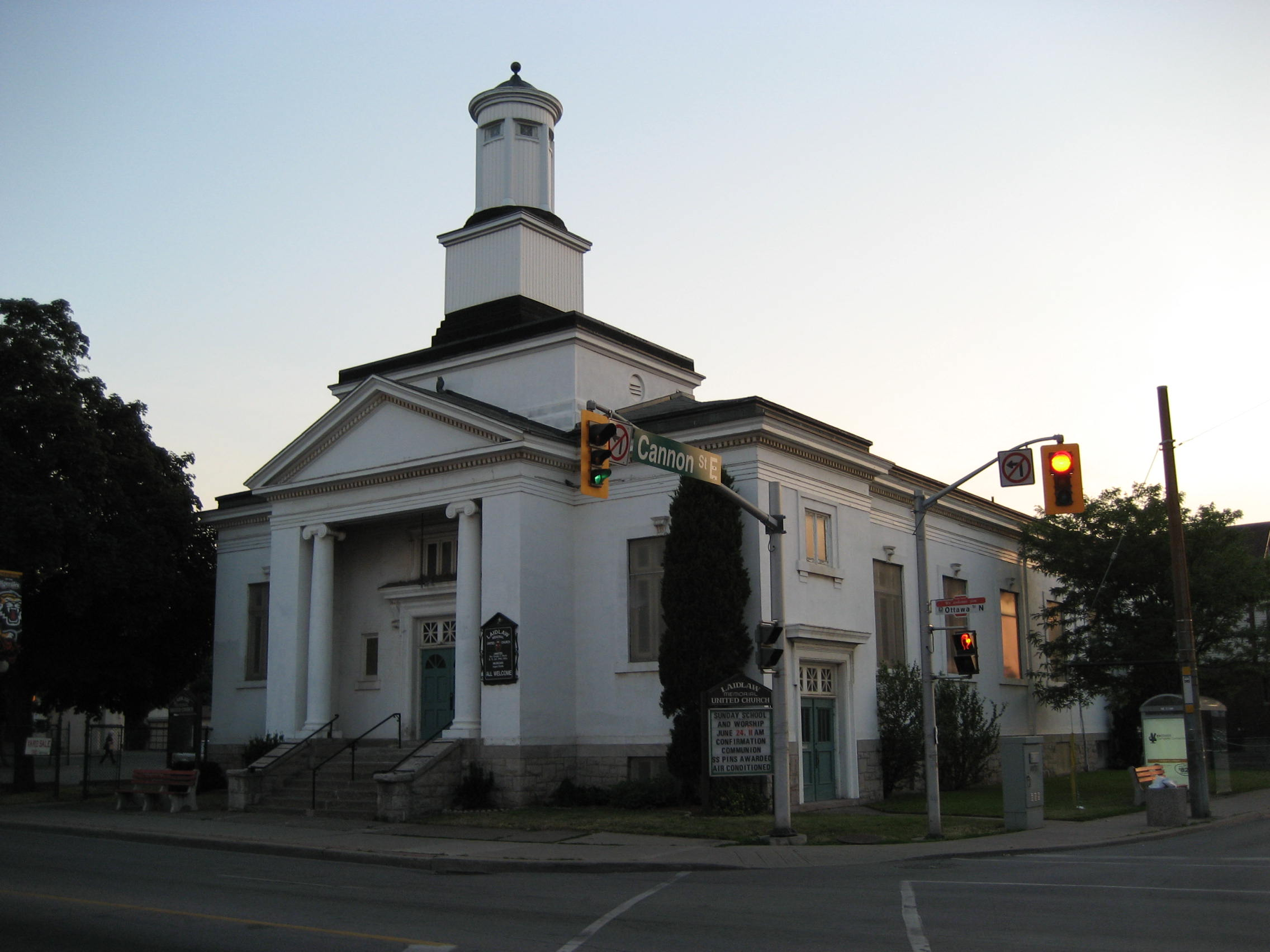 Laidlaw United Church, Ottawa Street South, Hamilton, Ontario